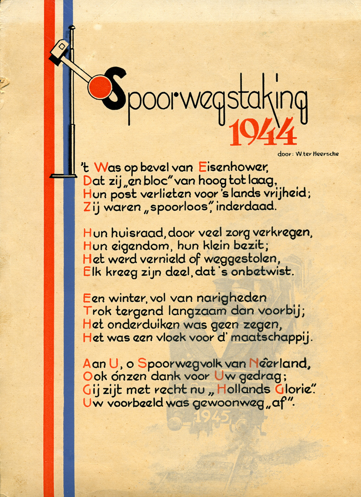 Document commemorating the railroad strikes of 1944-1945 in the Netherlands